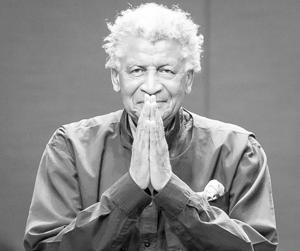 Abdullah Ibrahim at the stage of the University Aula. The concert was part of the Oslo Jazz Festival in Norway and took place on 16. August 2016. Lineup:Abdullah Ibrahim (piano)